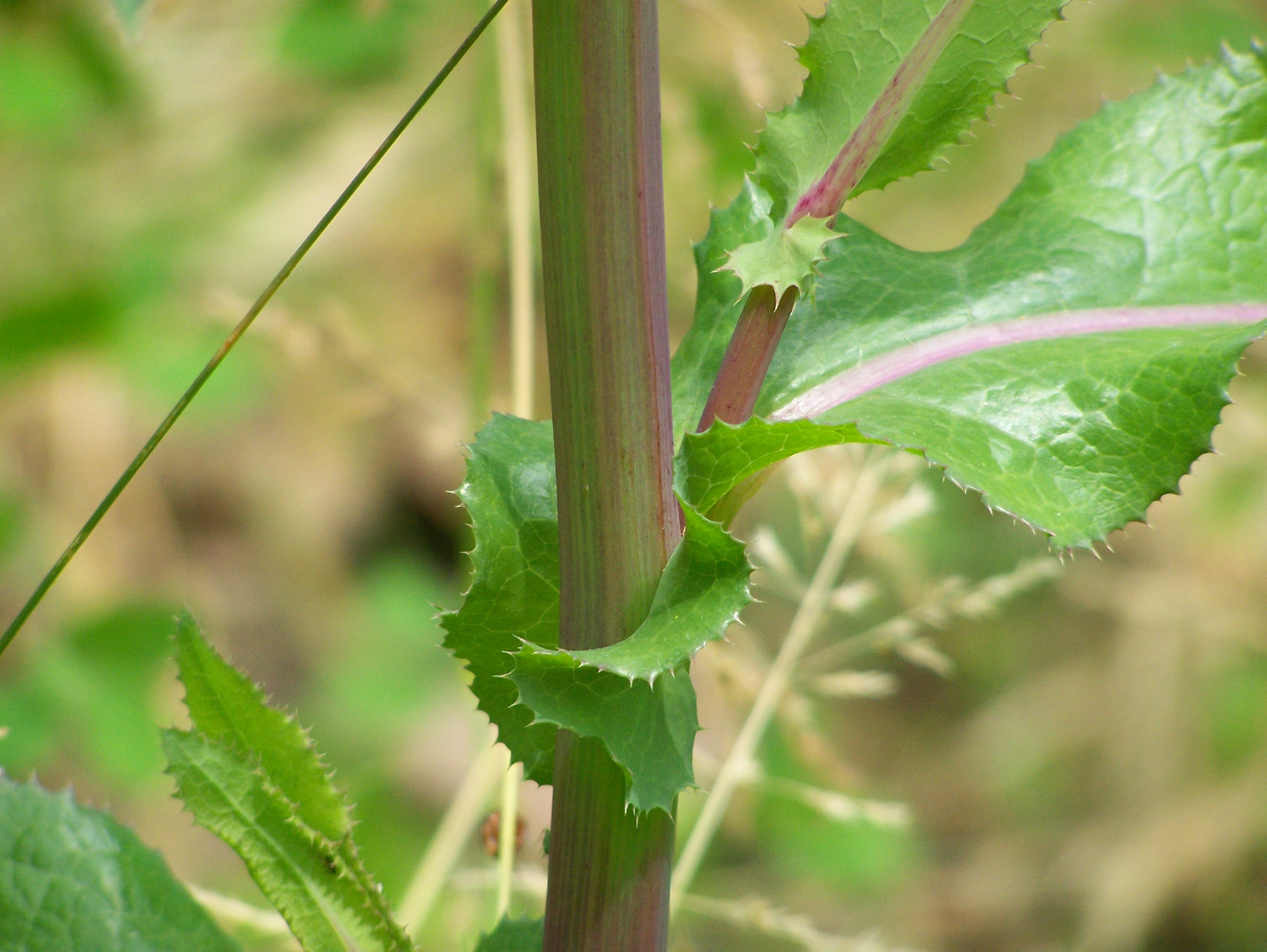 Prickly Sowthistle